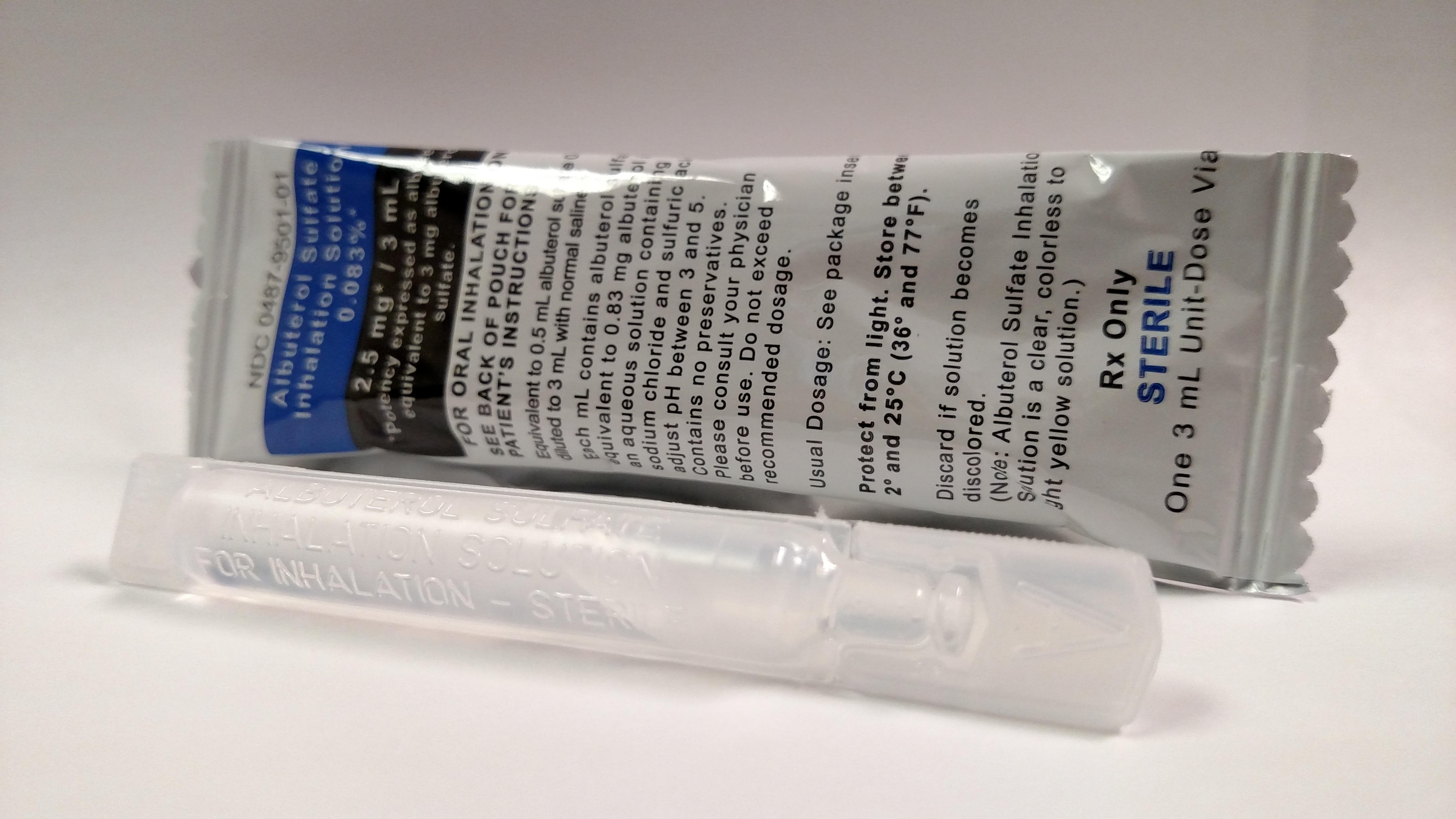 A unit dose vial of albuterol sulfate for inhalation.